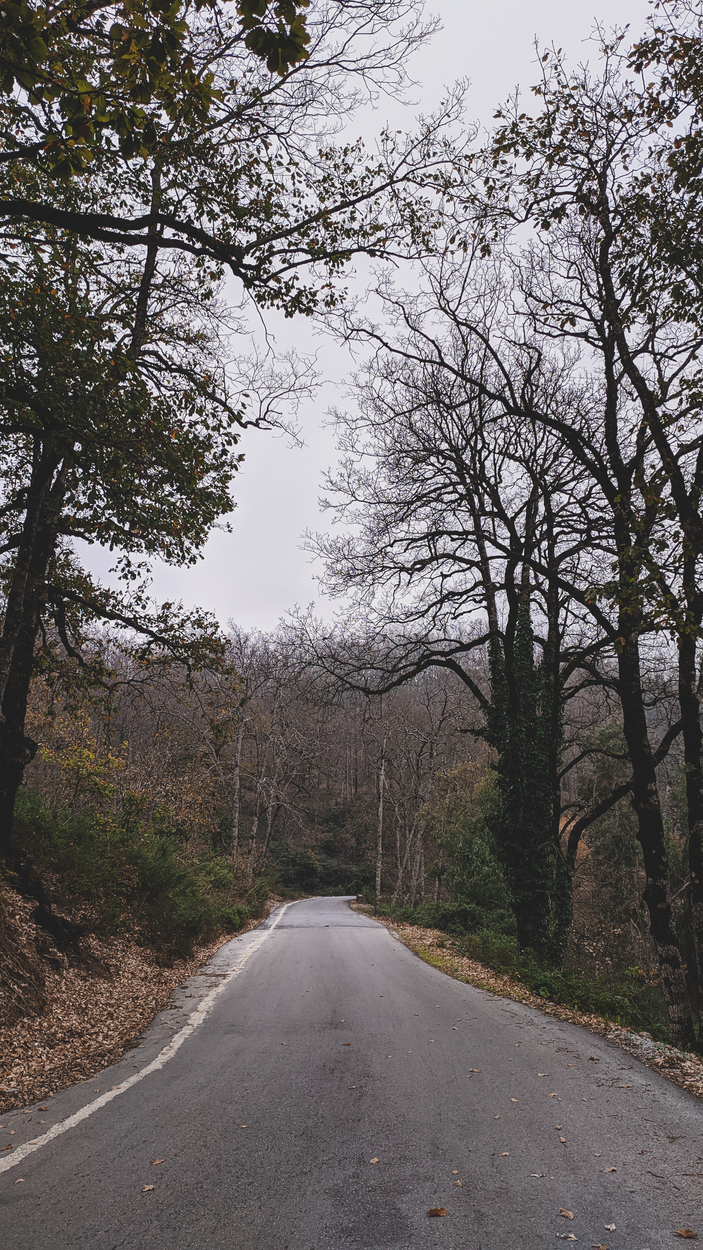 This is an image with the theme "Africa on the Move or Transport" from: Algeria